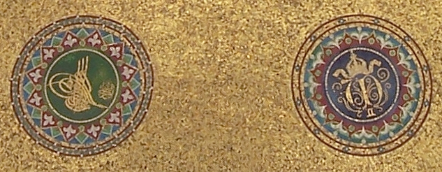 Detail of Image:Alman Çeşmesi Inner.jpg, Alman Çeşmesi, Sultanahmet, Istanbul, Turkey.